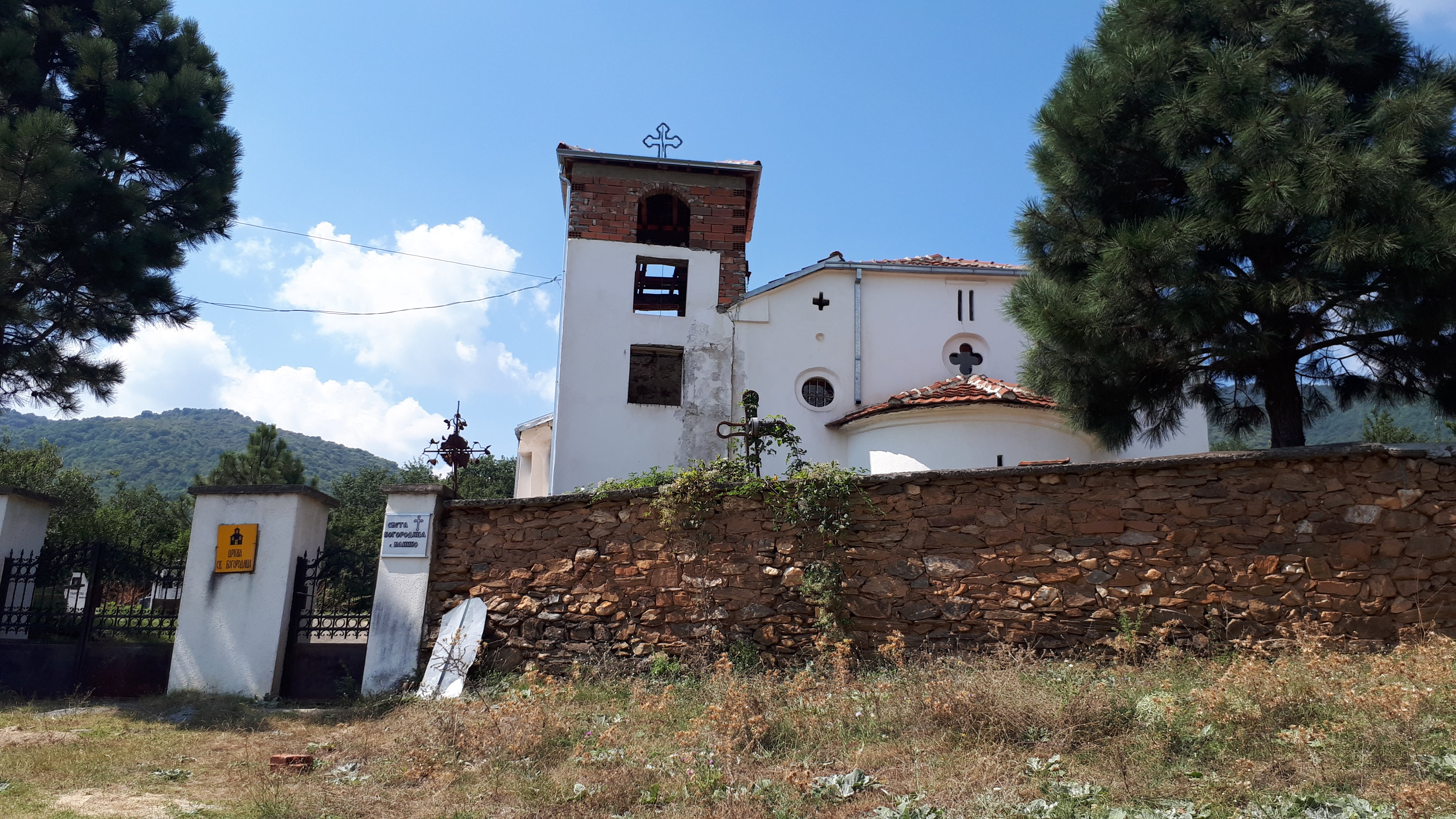 View of the Nativity of Mary Church in the village Kanino